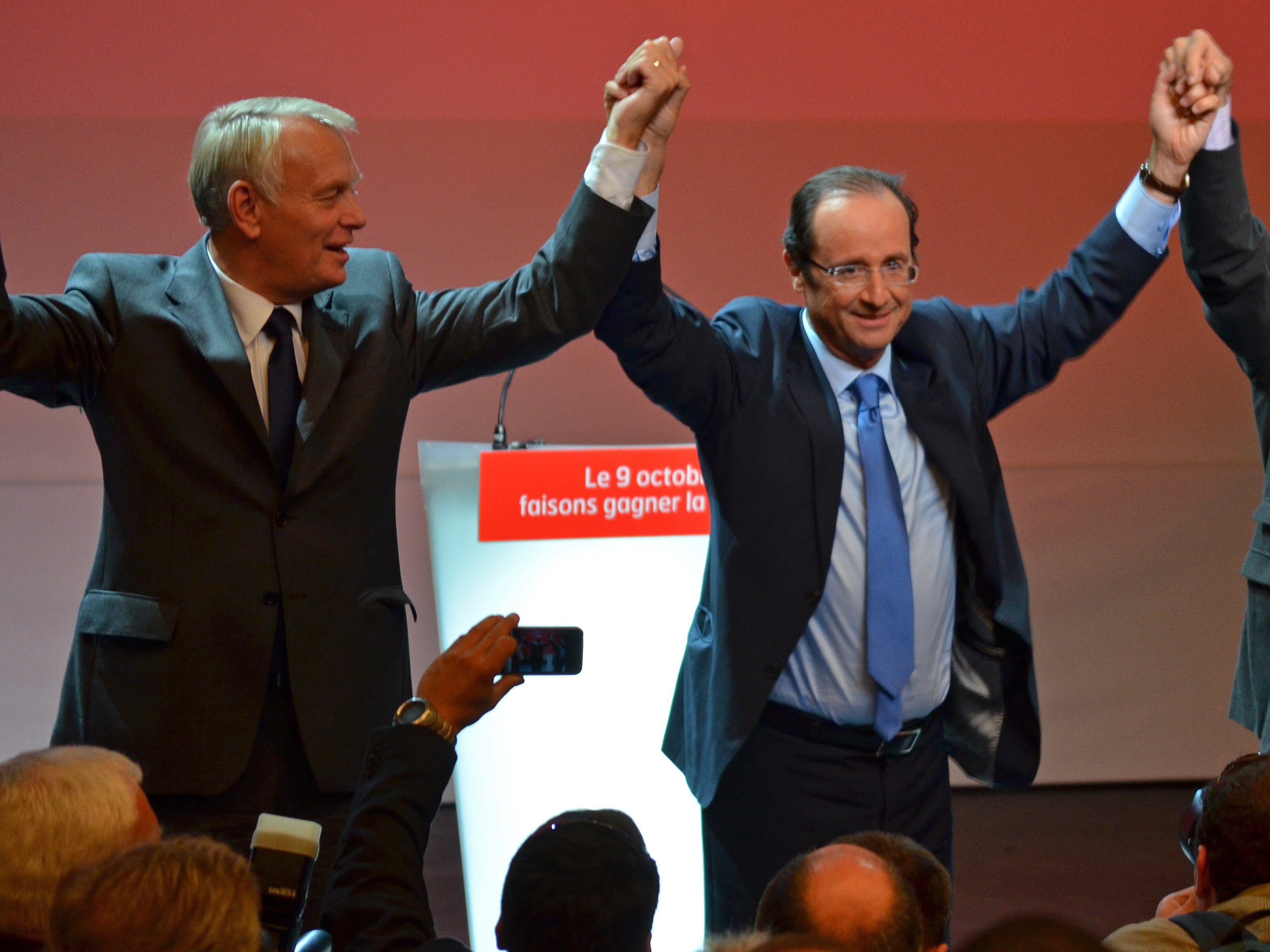 Jean-Marc Ayrault and François Hollande during a meeting in Nantes - 21 September 2011